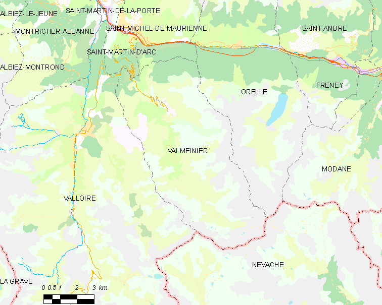 Map of French municipality Valmeinier